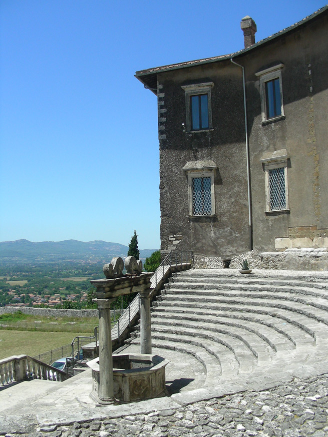 Italy, Latium, Rome's province, Palestrina. Well and ancient theatre in front of palazzo Colonna Barberini